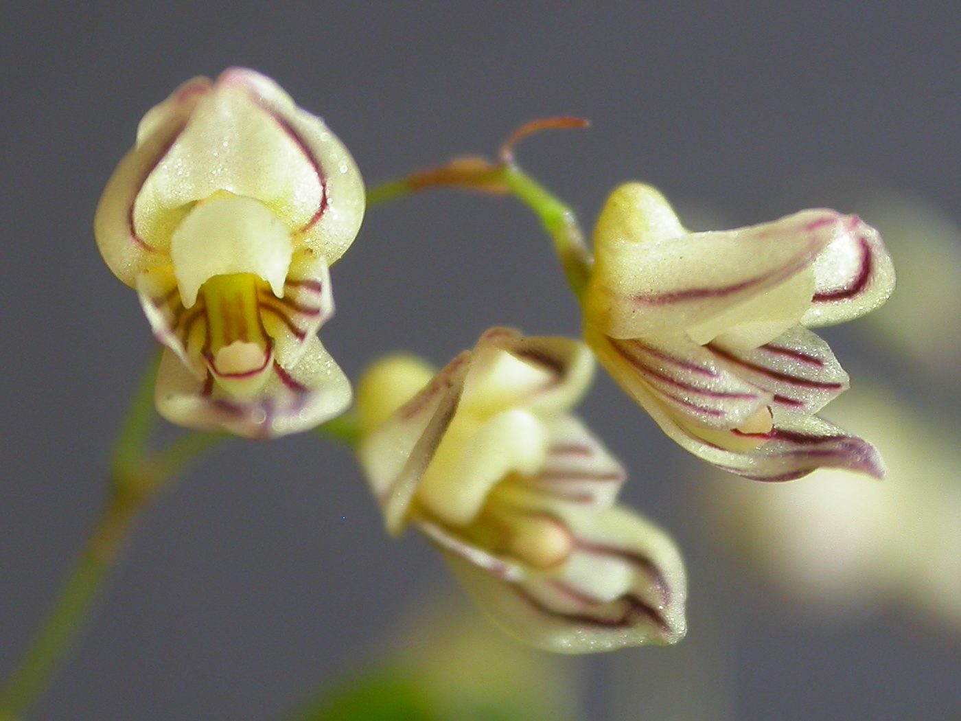 Pabstiella avenacea